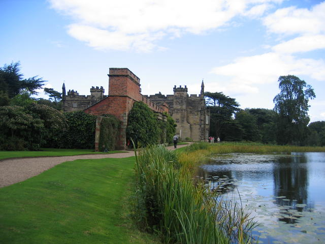 Lakes at Arbury Hall.